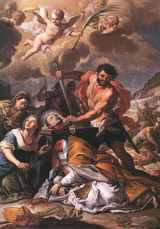 Martyrdom of Saint JanuariusOil on canvas, 262 x 193 cm